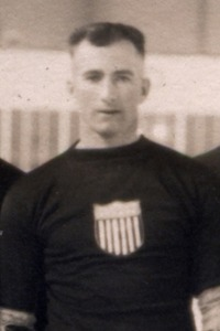 Ice hockey player Frank "Moose" Goheen representing the US national ice hockey team at the 1920 Summer Olympics in Antwerp, Belgium. The picture is a crop out of a larger team photo taken inside the ice rink Palais de Glace d'Anvers. The ice hockey tournament at the 1920 Summer Olympics took place between April 23 and April 29. The american team won silver medals at the games.